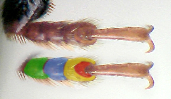 Upside of hind tarsus of Tritoma bipustulata, copy below partly coloured red: 4th segment